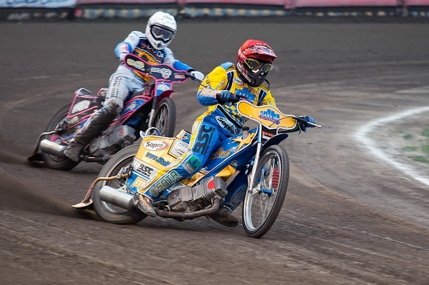 Lukasz Cyran representing "Stal" Gorzow in season 2011.